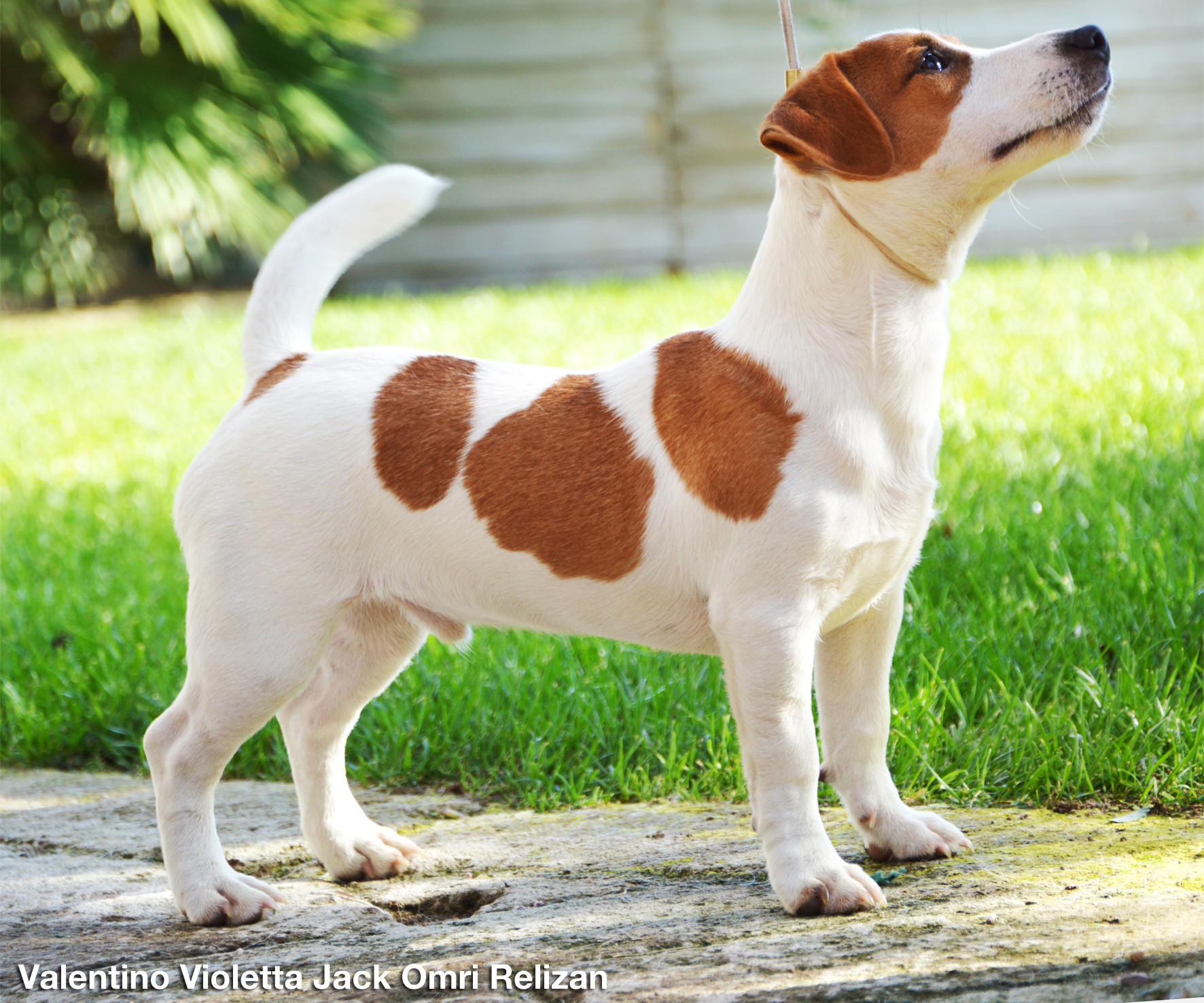 smooth Jack Russell Terrier, champion, Violetta Jack Russel Terrier Kennel